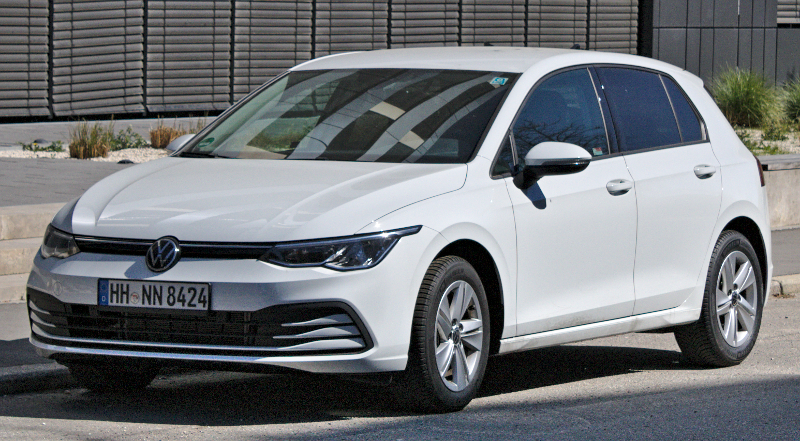 Volkswagen_Golf_VIII in Stuttgart-Vaihingen